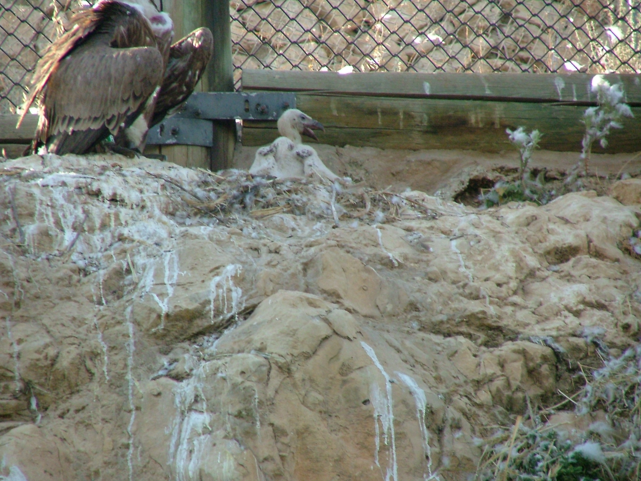 A baby Griffon Vulture (Gyps fulvus) at the Jerusalem Biblical Zoo.